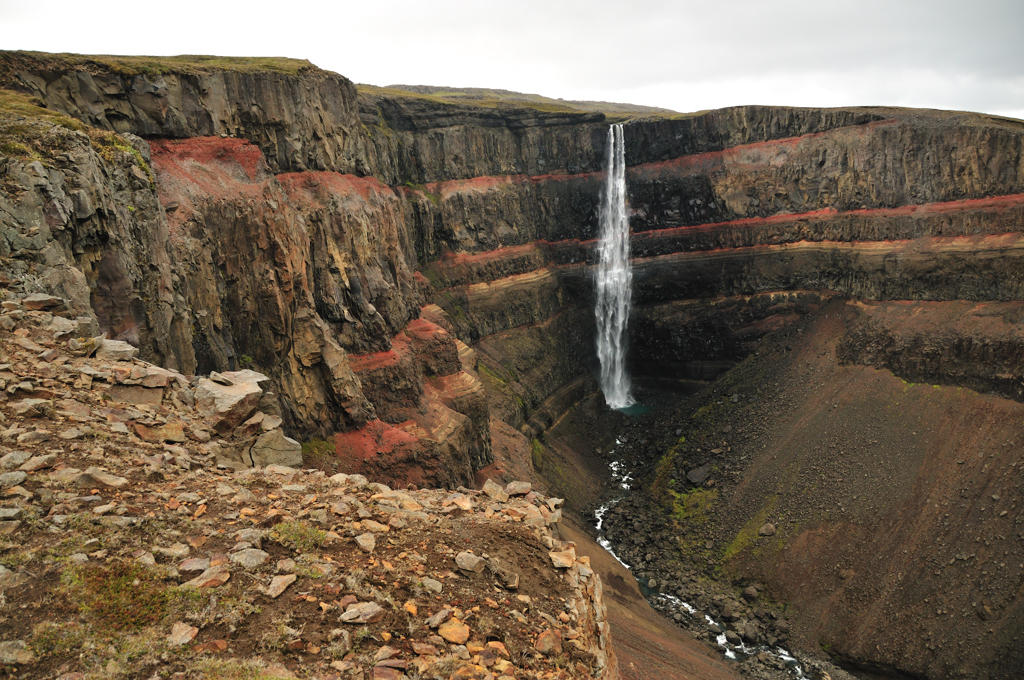 Lava flows in the cliff of Hengifoss waterfall in Iceland.